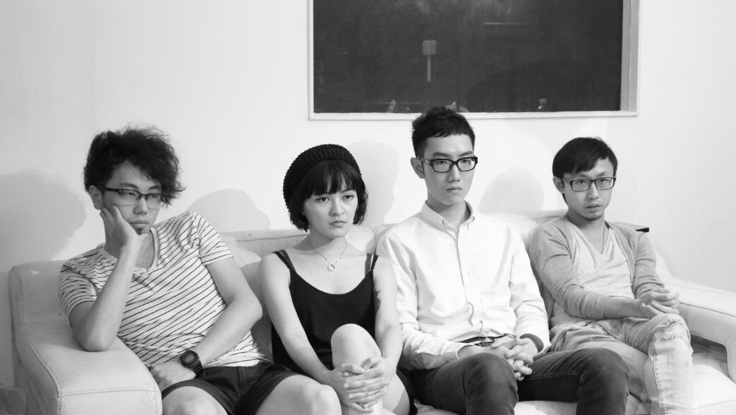 Tux band members